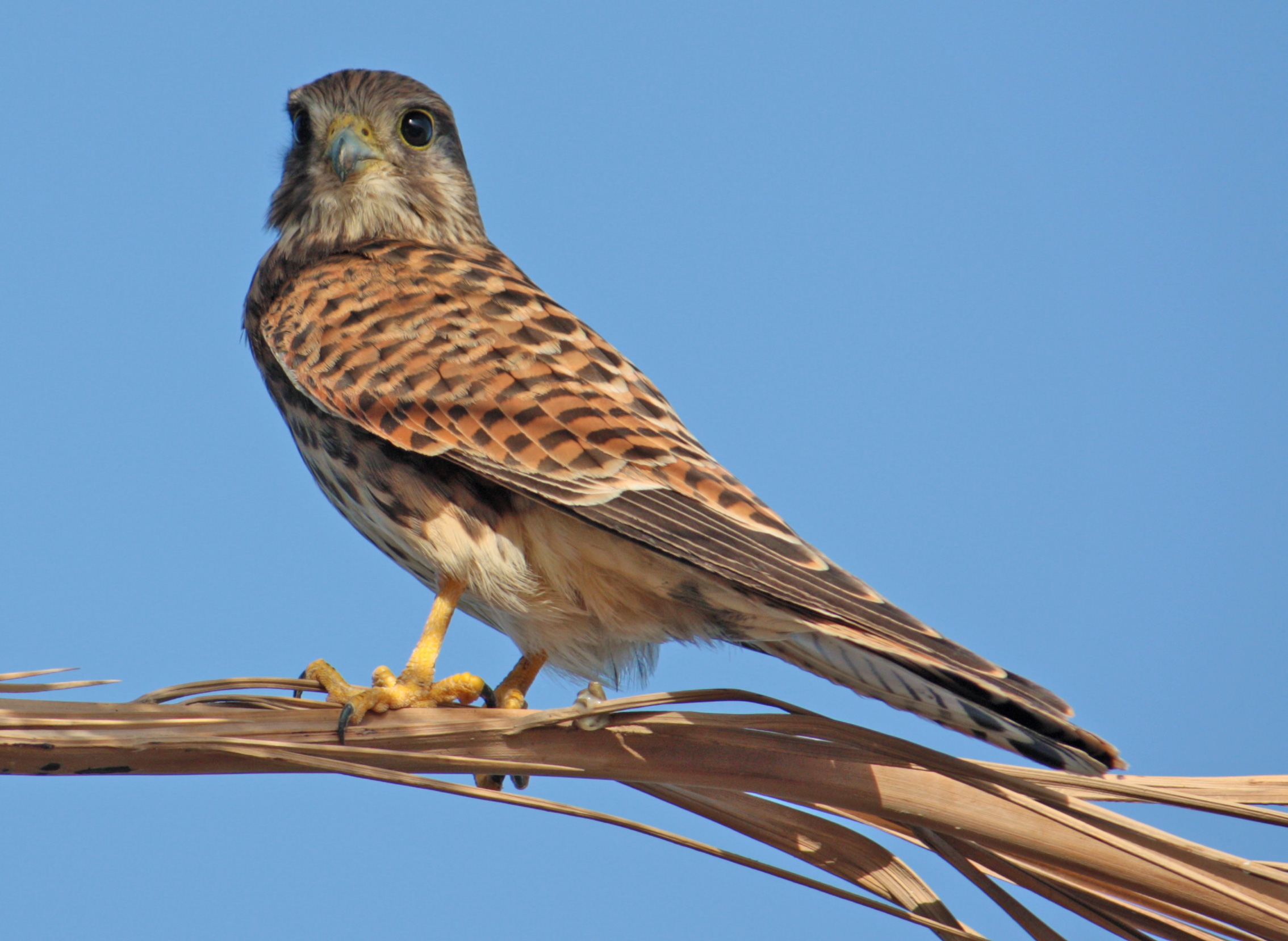 An Egyptian falcon or common kestrel (Falco tinnunculus), Hurghada, Egypt.